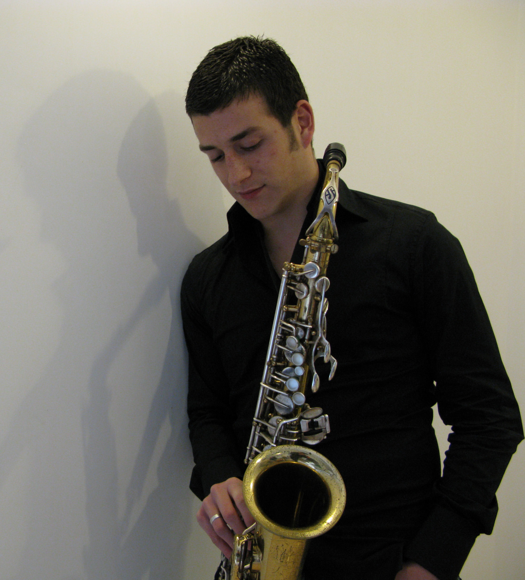 Photo of Fancesco Cafiso, Saxophonists